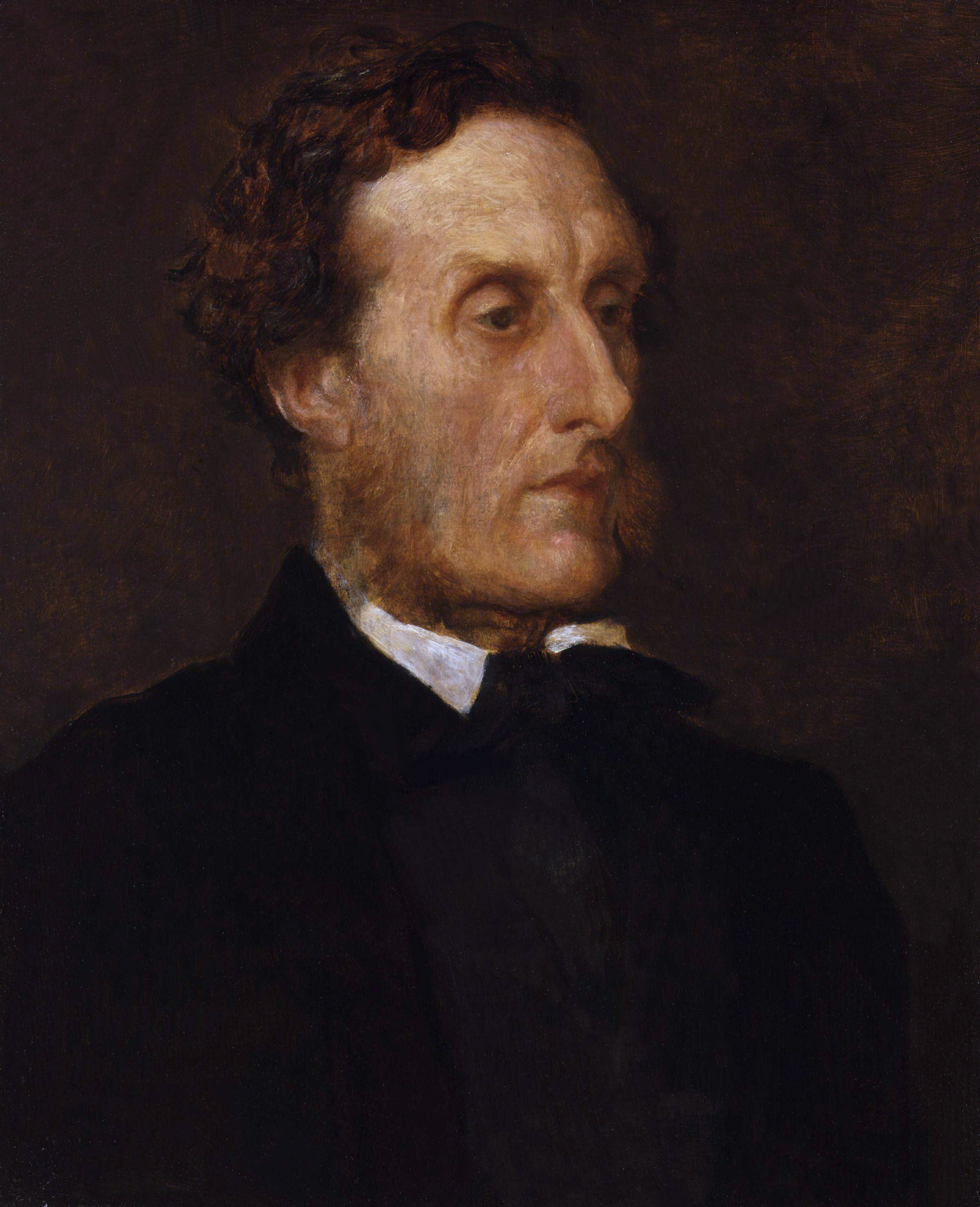 Anthony Ashley-Cooper, 7th Earl of Shaftesbury, by George Frederic Watts (died 1904), given to the National Portrait Gallery, London in 1895. All images in this batch have been confirmed as author died before 1939 according to the official death date listed by the NPG.